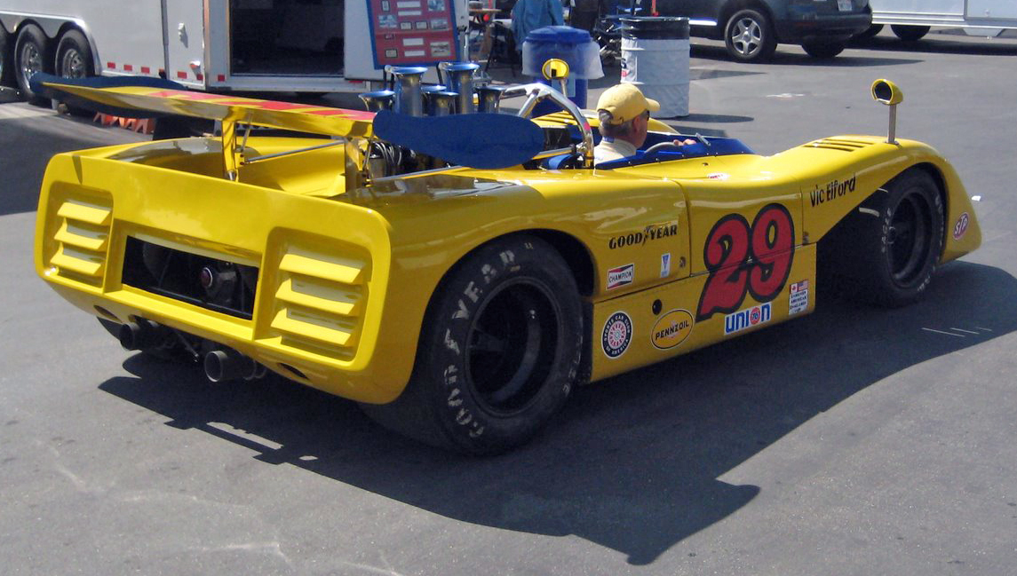 1971 McLaren M8E (ex Vic Elford) at the Laguna Seca Historics, 2009